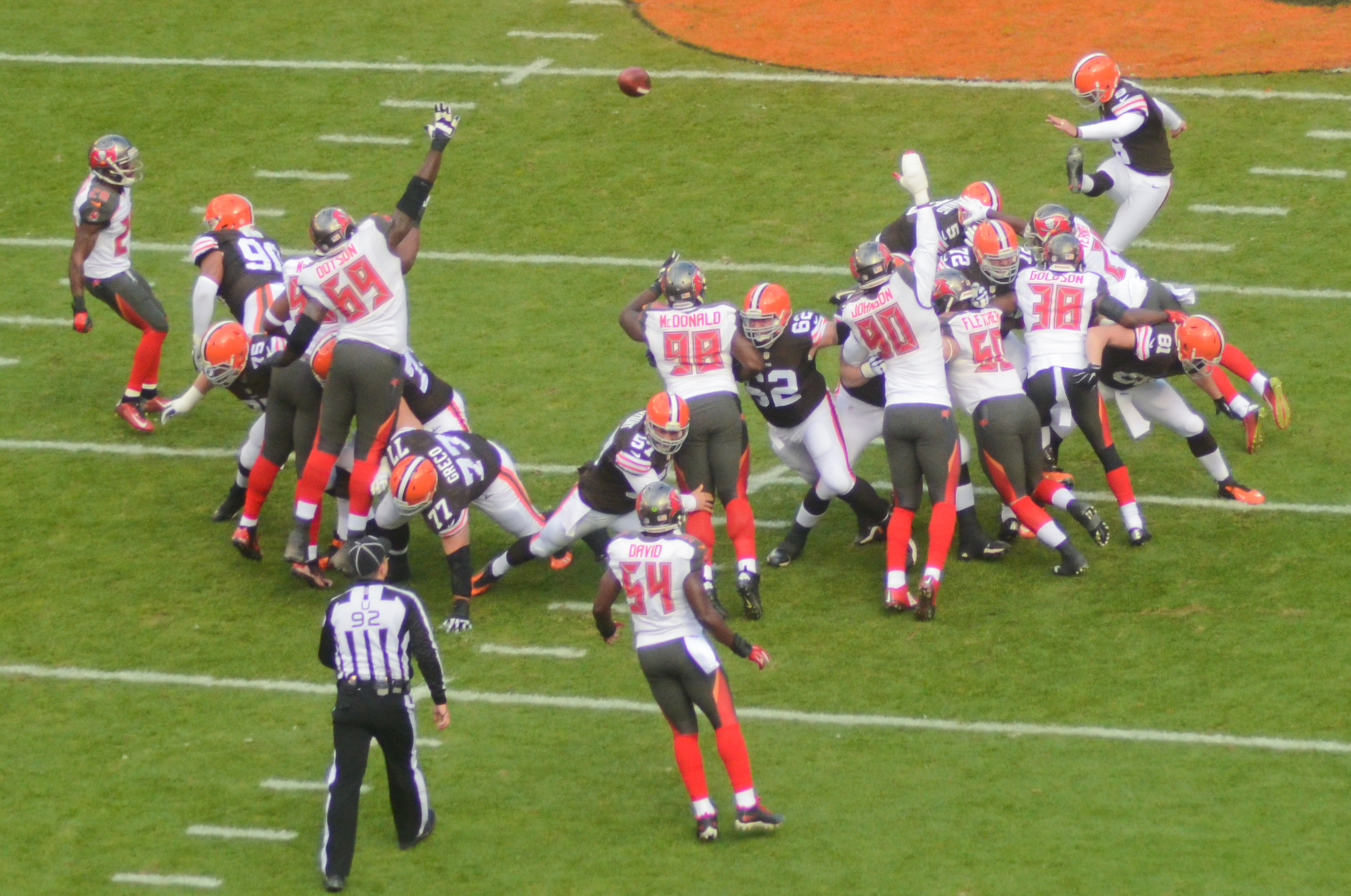 Cleveland Browns vs. Tampa Bay Buccaneers